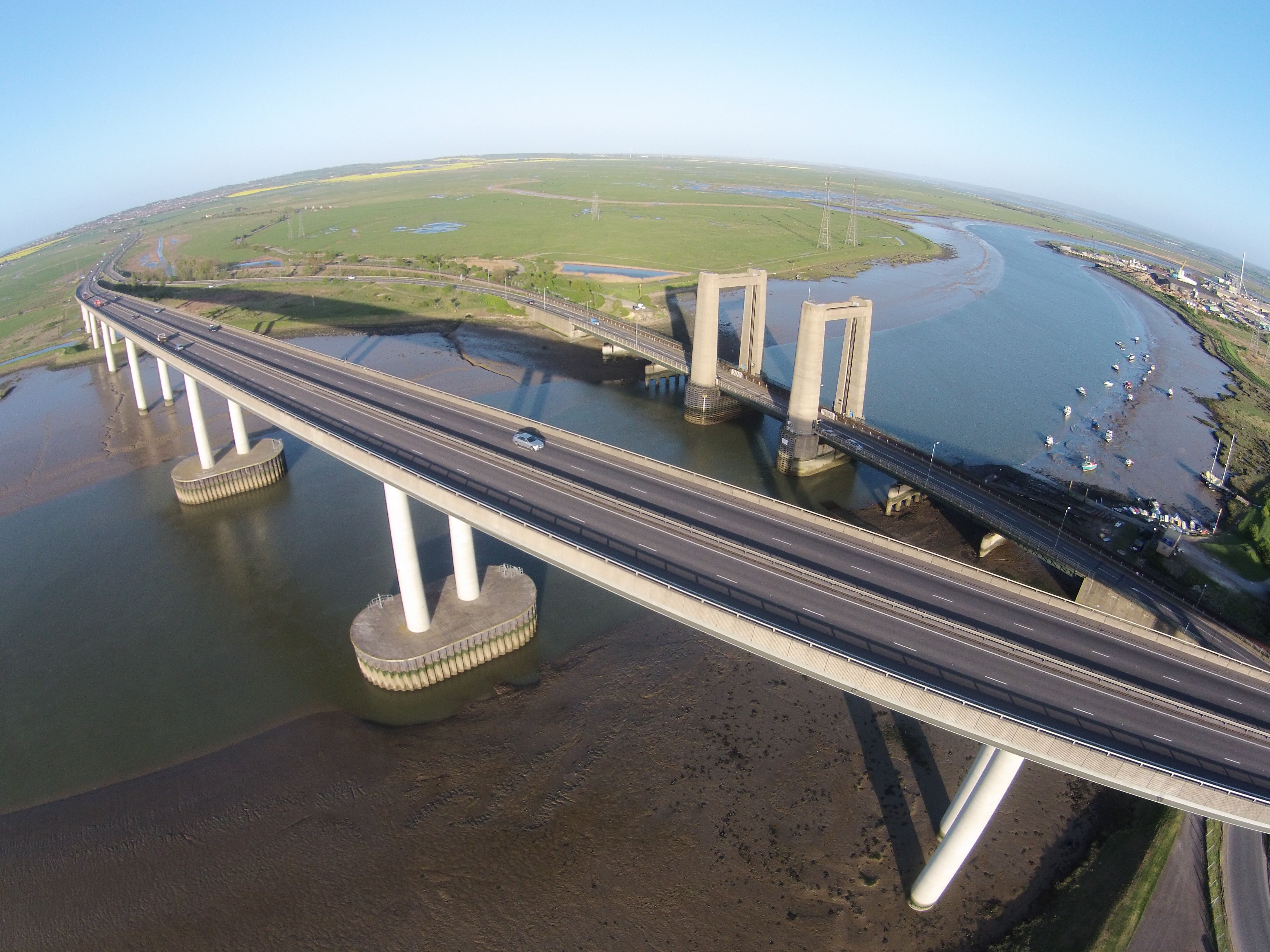 Sheppey Crossing Bridges